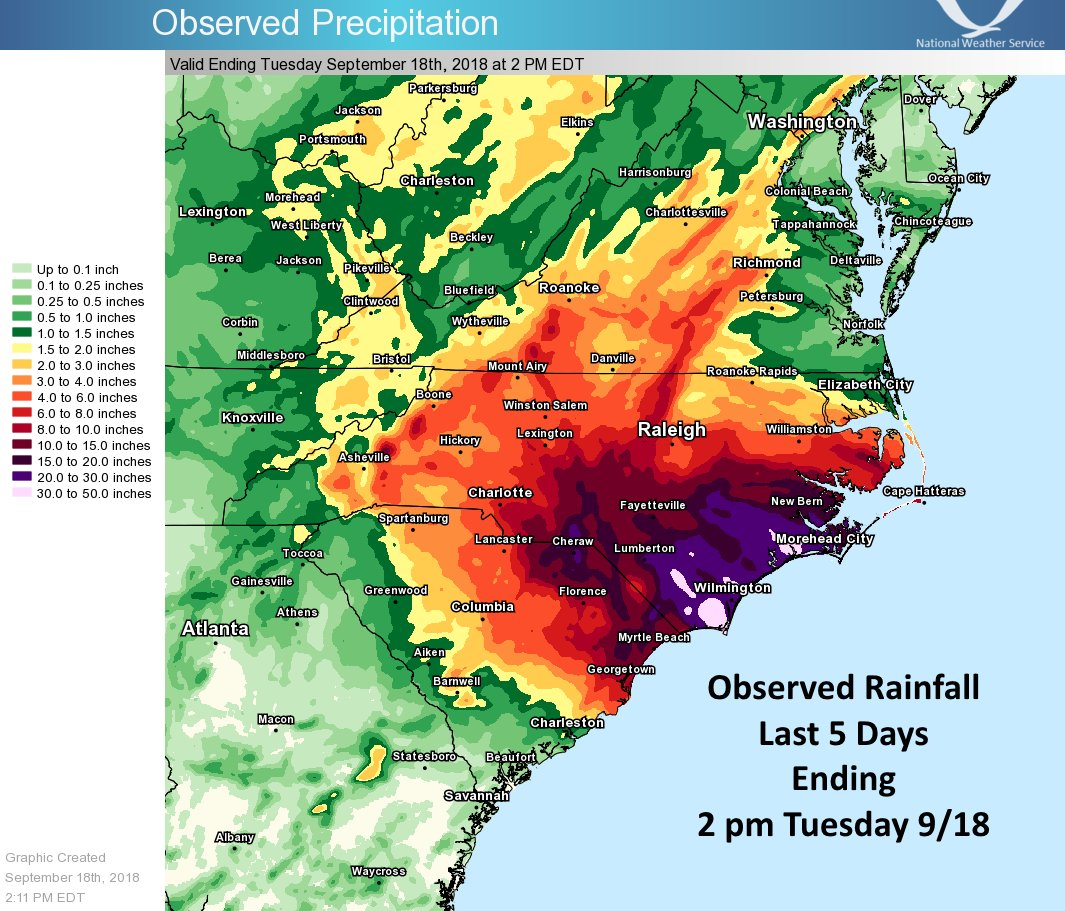 The latest observed rainfall map from Florence. Totals are from the last 5 days ending 2 pm this afternoon (Tuesday September 18th).